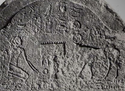 Apis stele dated to the regnal year 6 of Cambyses (524 BCE), and depicting the king (kneeling, left) as an Egyptian pharaoh, while worshiping a dead Apis bull (right).[1] Ironically, later Greek traditions depicted Cambyses as the slayer of this Apis bull.